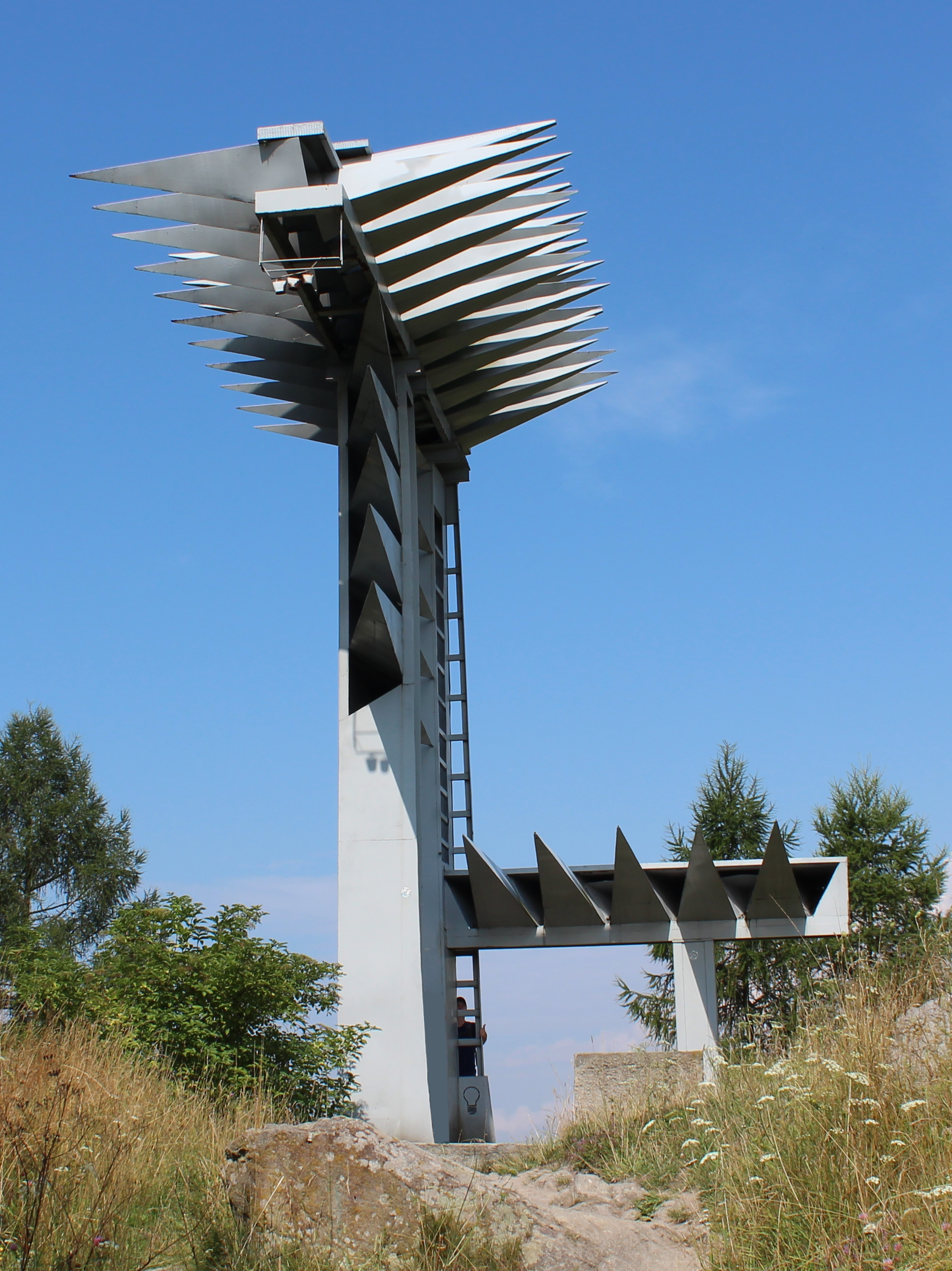 Organy - sculpture of Władysław Hasior